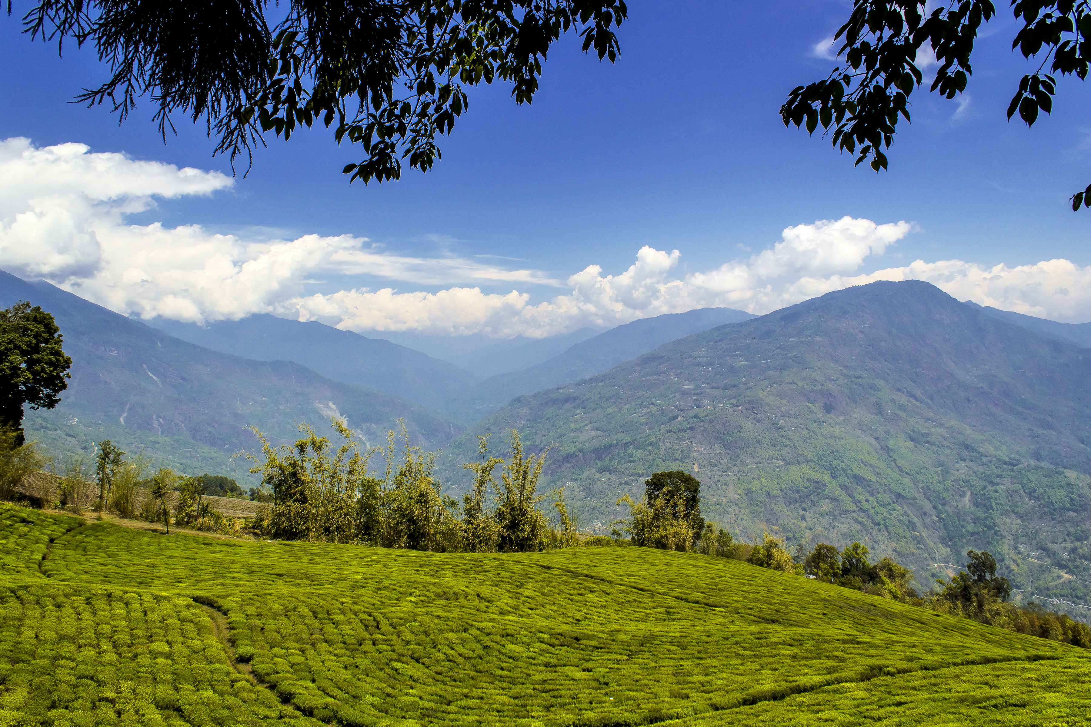 The Temi Tea Garden (27.2367°N 88.4222°E) in Ravangla, established in 1969 by the Government of Sikkim, is located in South Sikkim in the northeastern Indian state of Sikkim. It is the only tea garden in Sikkim and considered one of the best in India and in the world.[1][2][3] Top quality tea is produced, which is in demand in the international market. The garden is laid over a gradually sloping hill. The tea produced in this garden is also partly marketed under the trade name “Temi Tea